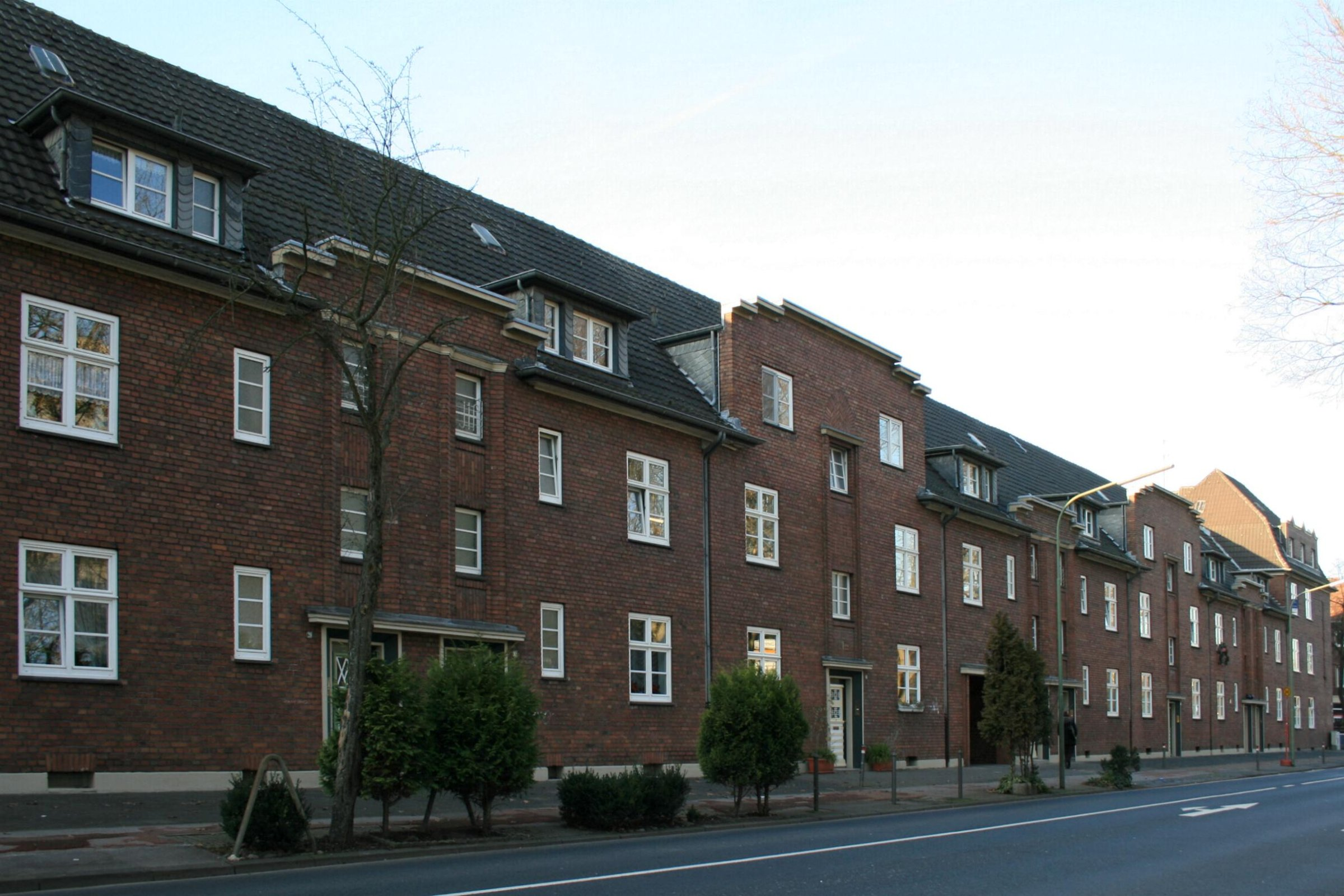 This is a photograph of an architectural monument.